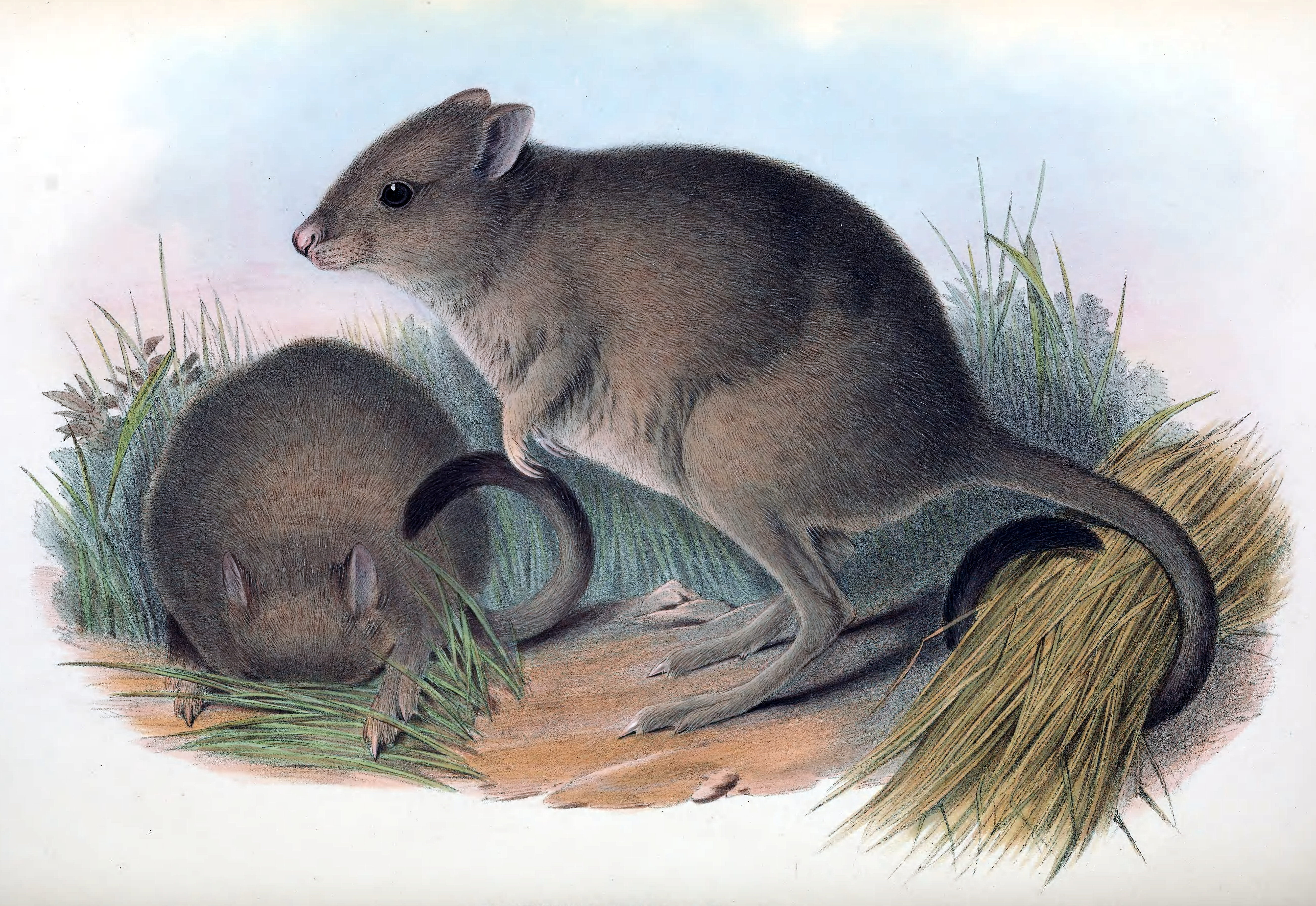 Plate in Gould's Mammals of Australia volume 3. The title is the caption in that work, and may be a synonym. The file was uploaded with the current name in the category, a crop and other adjustments were made to the image. The caption and other details were removed.